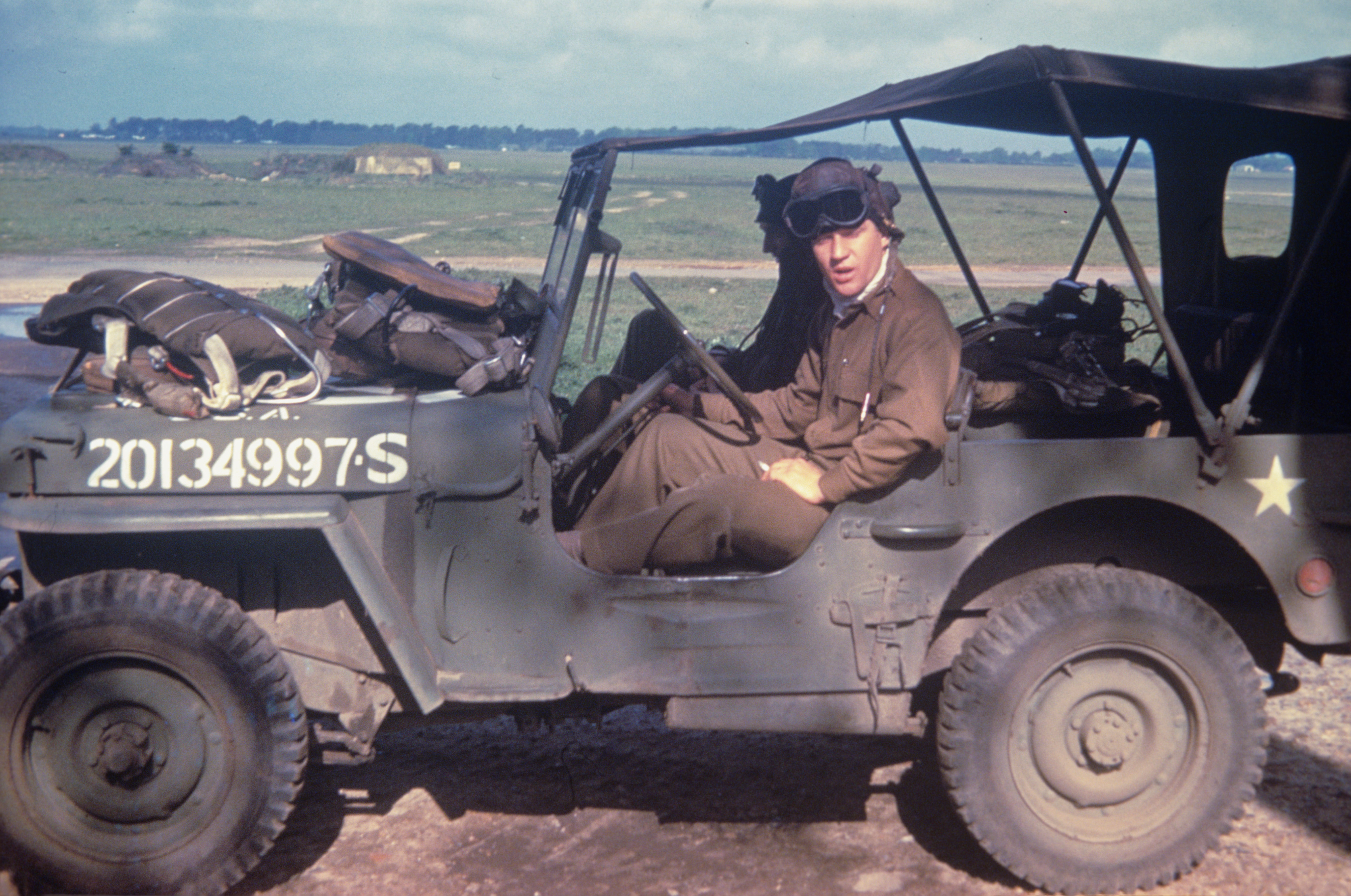 Major Raymond S Whetmore, an Ace of the 359th Fighter Group, drives a jeep at East Wretham. Caption on reverse: '359th FG Photos